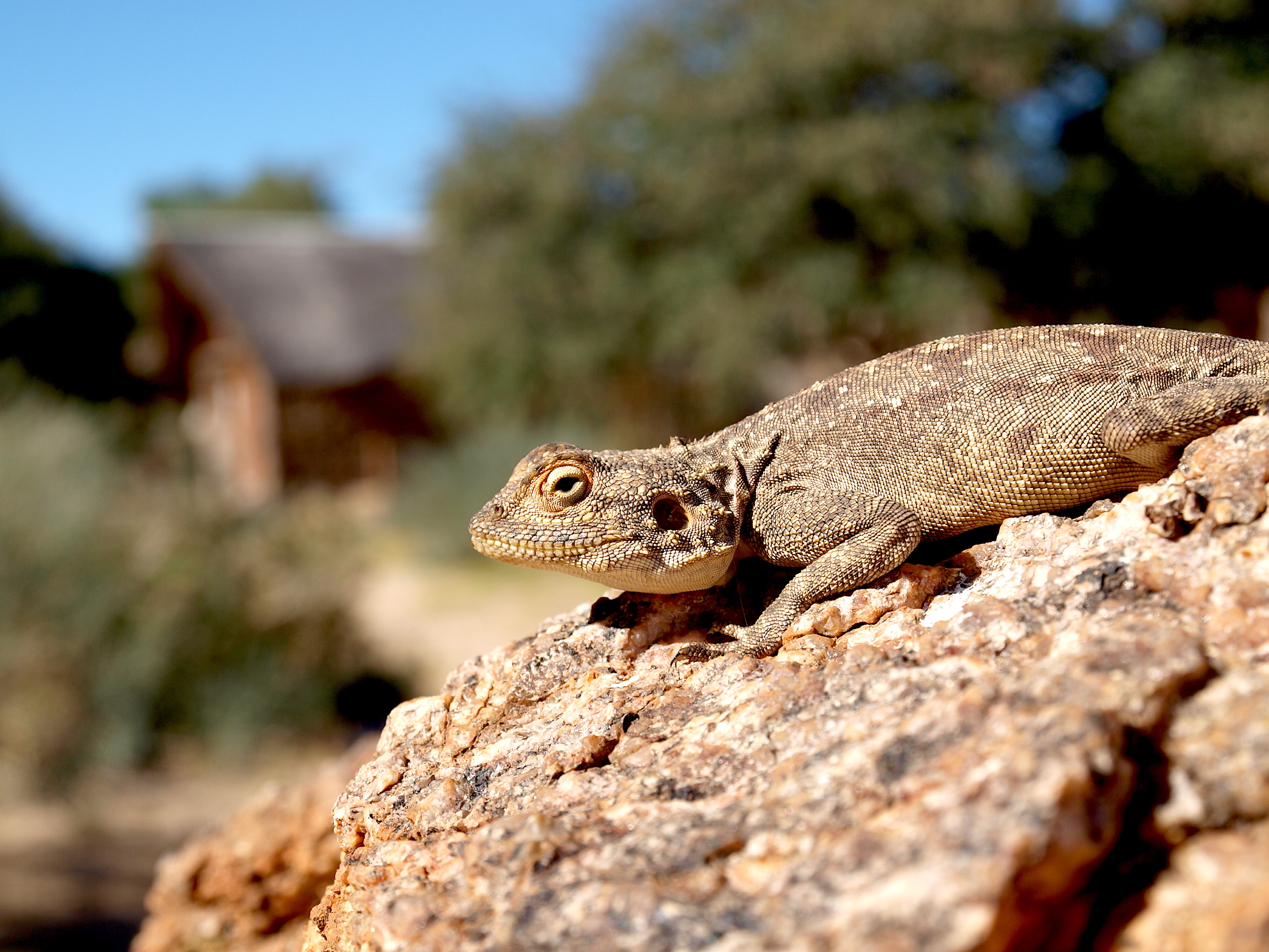 Agame at the Canon Lodge in Namibia